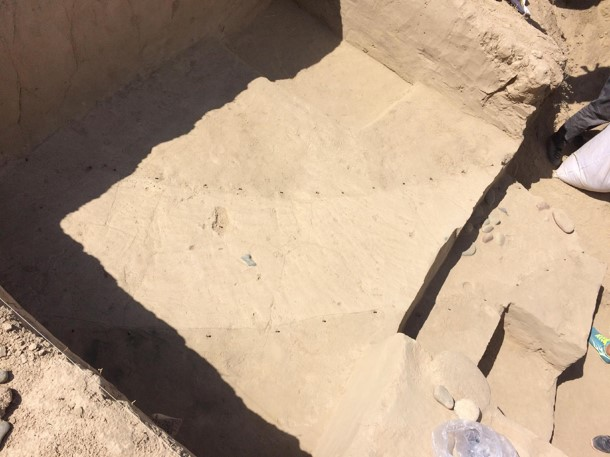 AUCA press